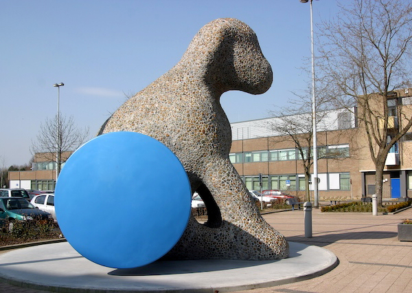 Thontie